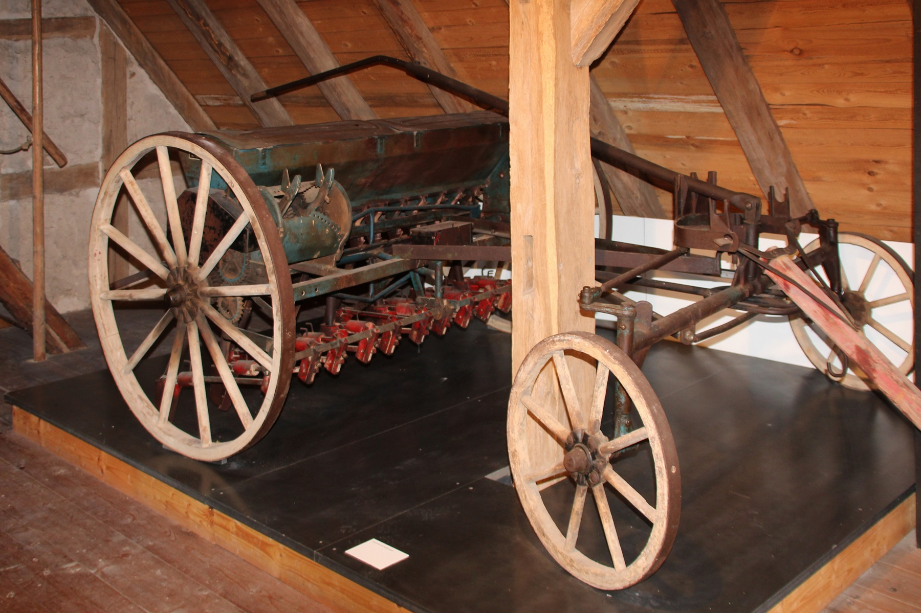 "Isaria" seeder buildt by Hans Glas GmbH, Dingolfing, Germany, on exhibition in the Kirchenburg-Museum in Iphofen-Mönchsondheim, Germany